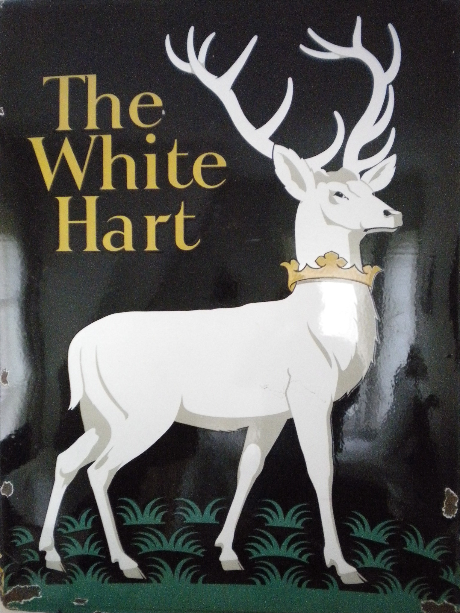 mid XX century Pub signboard in laquered steel dimensions 90 wide x 120 high - 1 of a pair